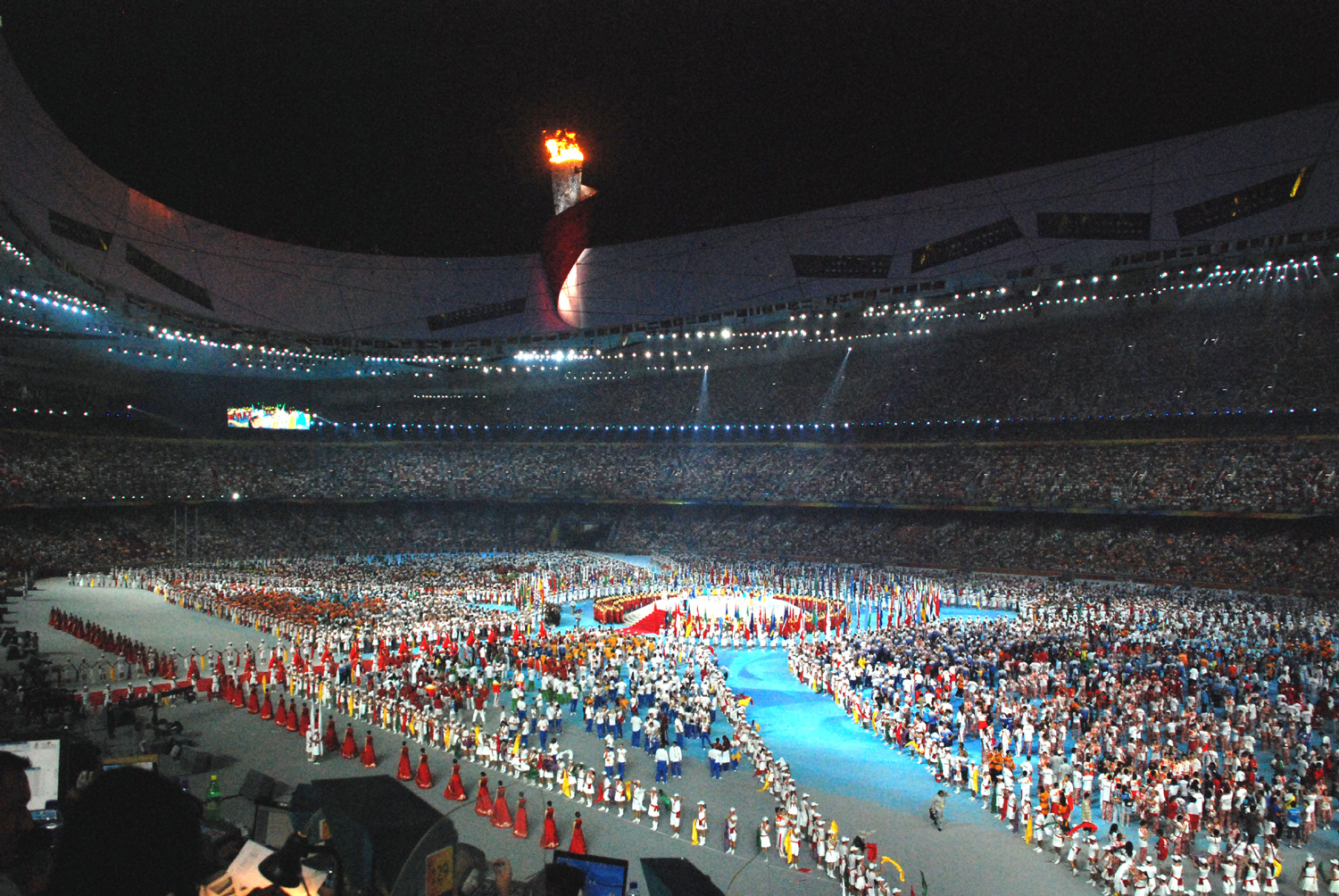 The Bird's nest, Beijing, during the closing ceremony of the 2008 olympic games, august 24th